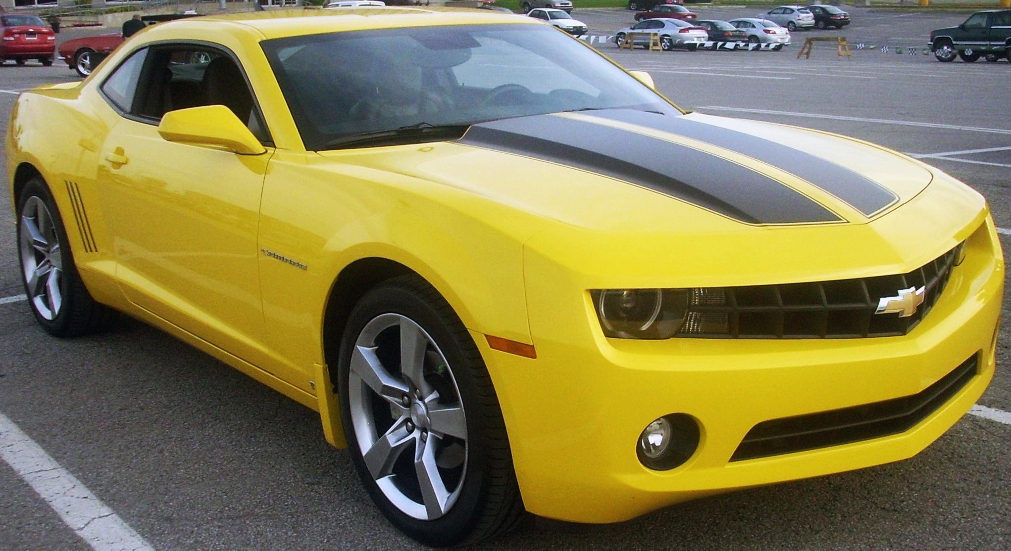 2010 Chevrolet Camaro photographed in Laval, Quebec, Canada at Les chauds vendredis 2010.